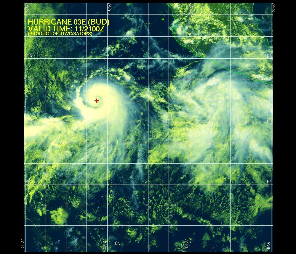 Hurricane 03E (Bud) 2006-07-11 21-00Z